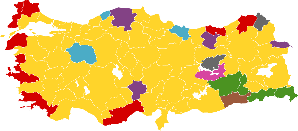 Results of 2004 Turkish elections